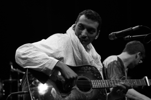 Bombino playing on 30th Druga Godba festival in Ljubljana, SloveniaSlovenščina: Bombino na festivalu 30. Druge Godbe v Ljubljani